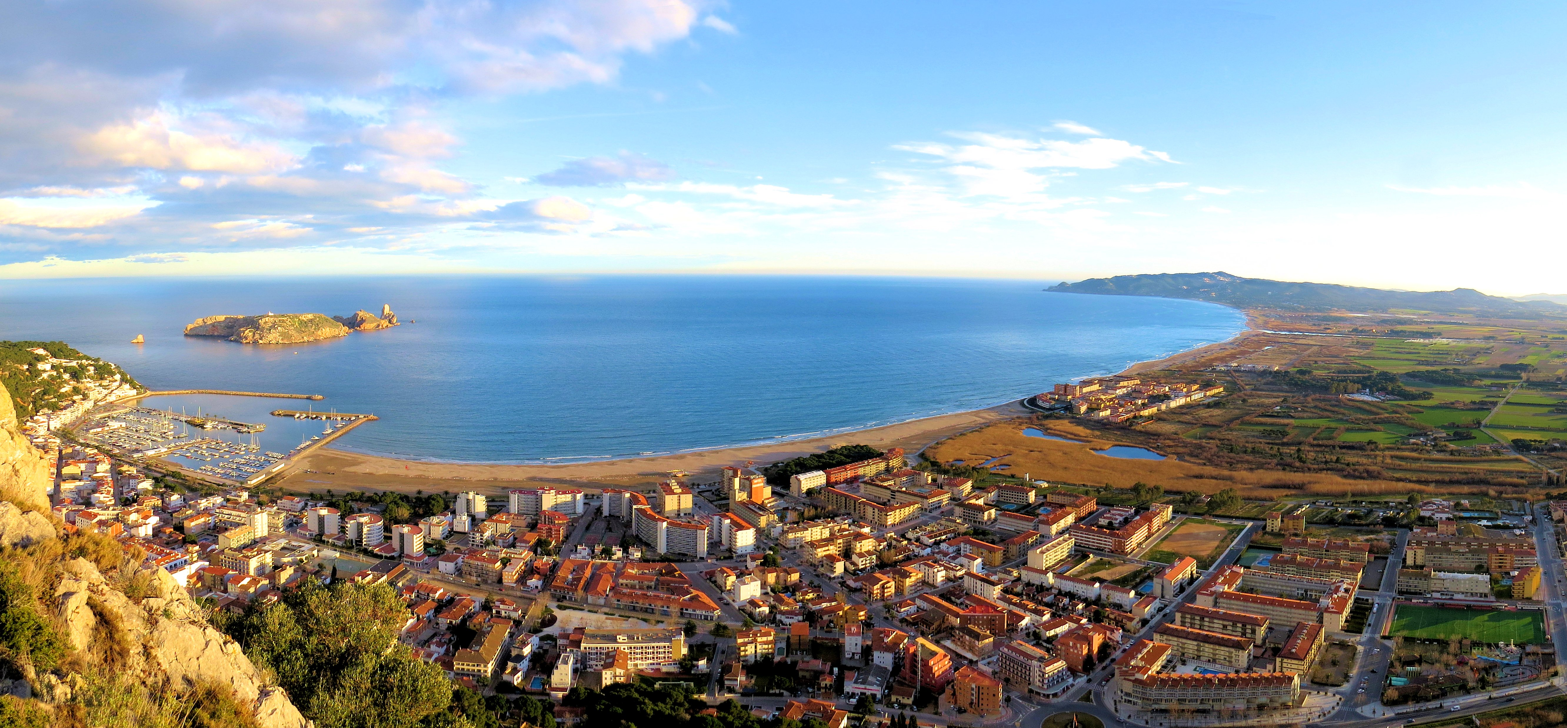 Estartit Bay